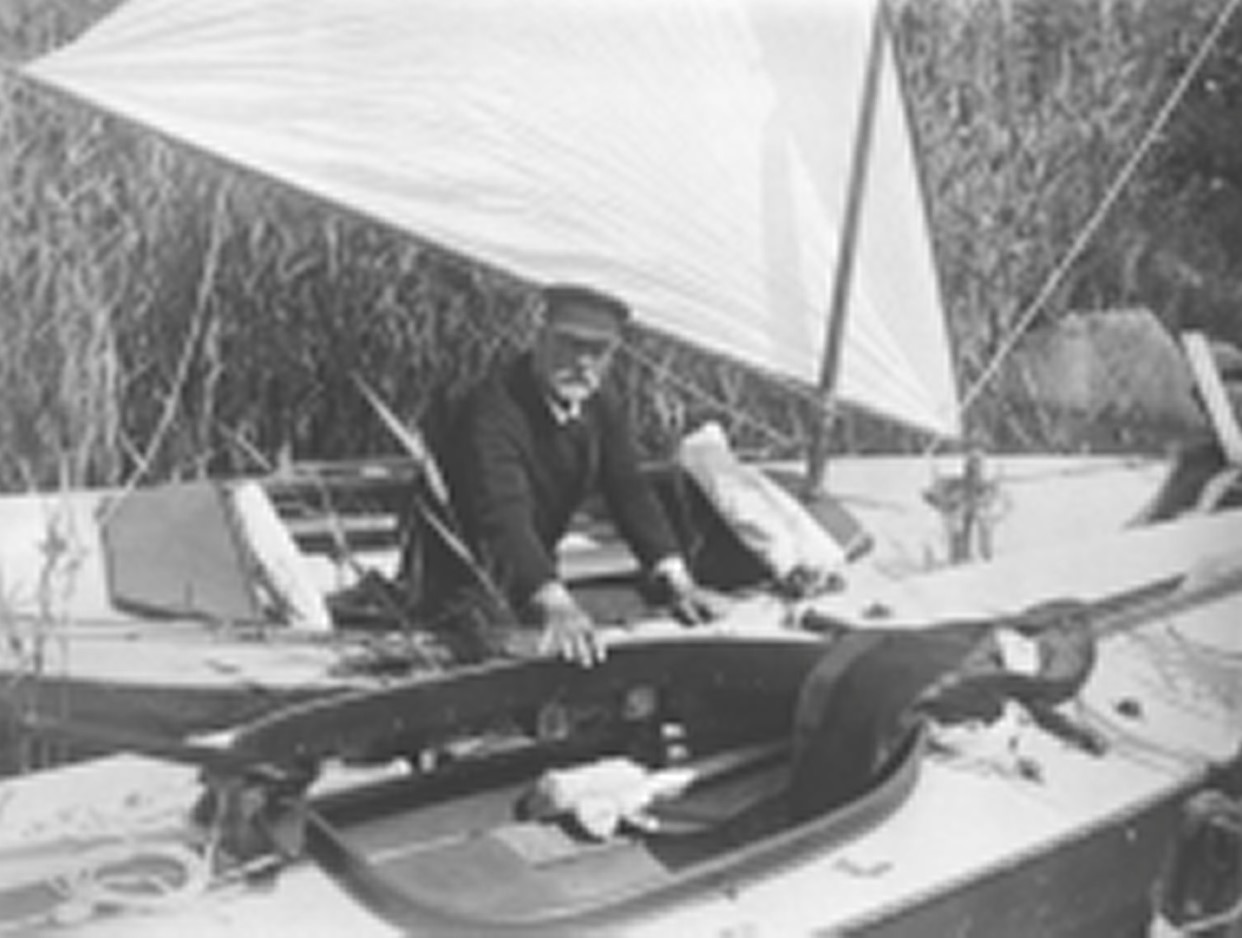 Swedish naval captain and sailor Carl Edvard Smith (1843-1928)